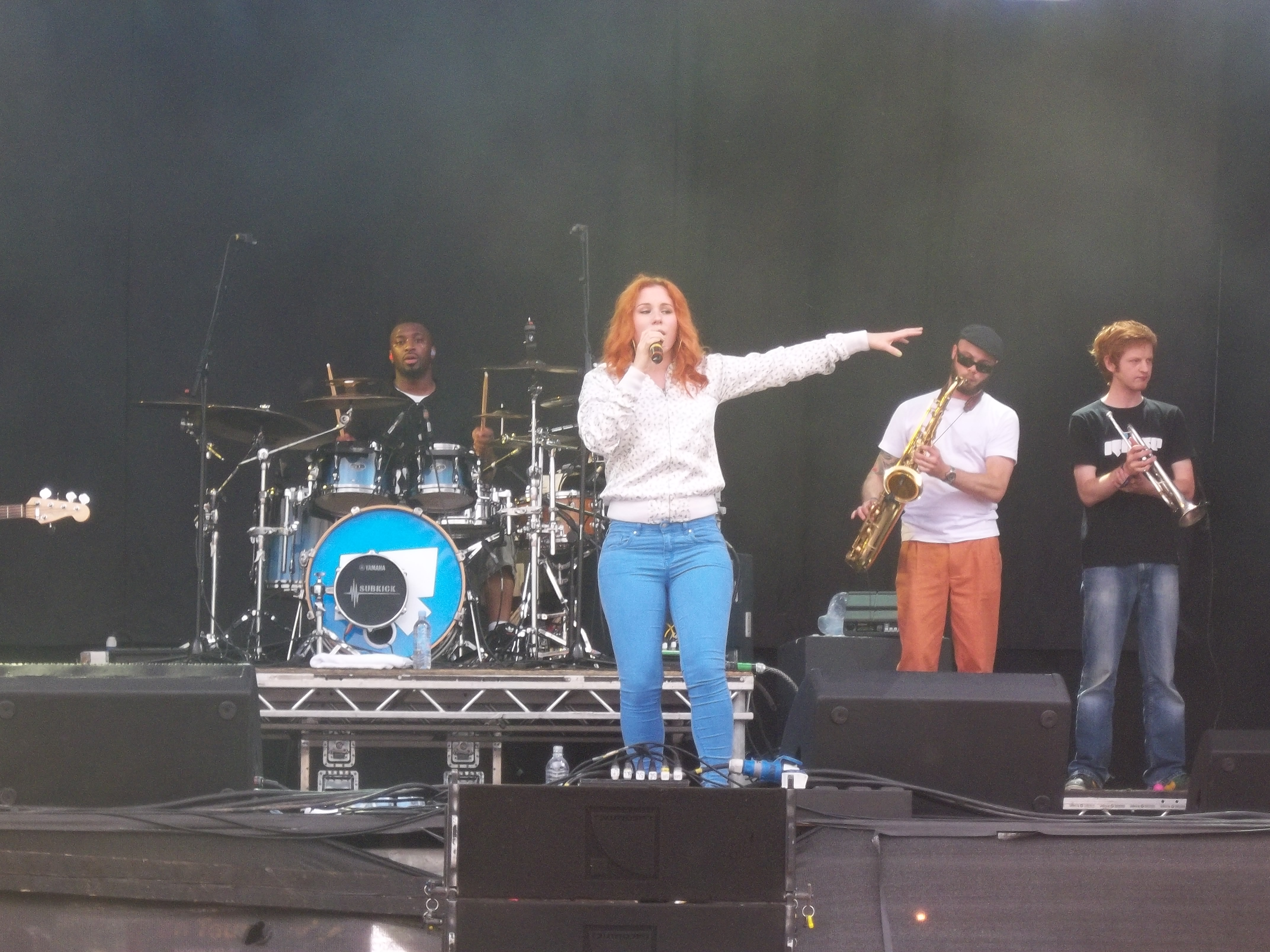 Katy B performs at the Wireless Festival in Hyde Park, London, July 2011.